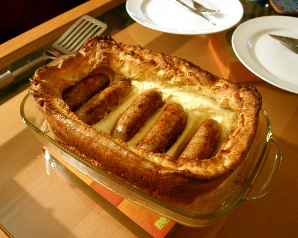 A cooked toad in the hole in a baking dish, on a table ready to serve.